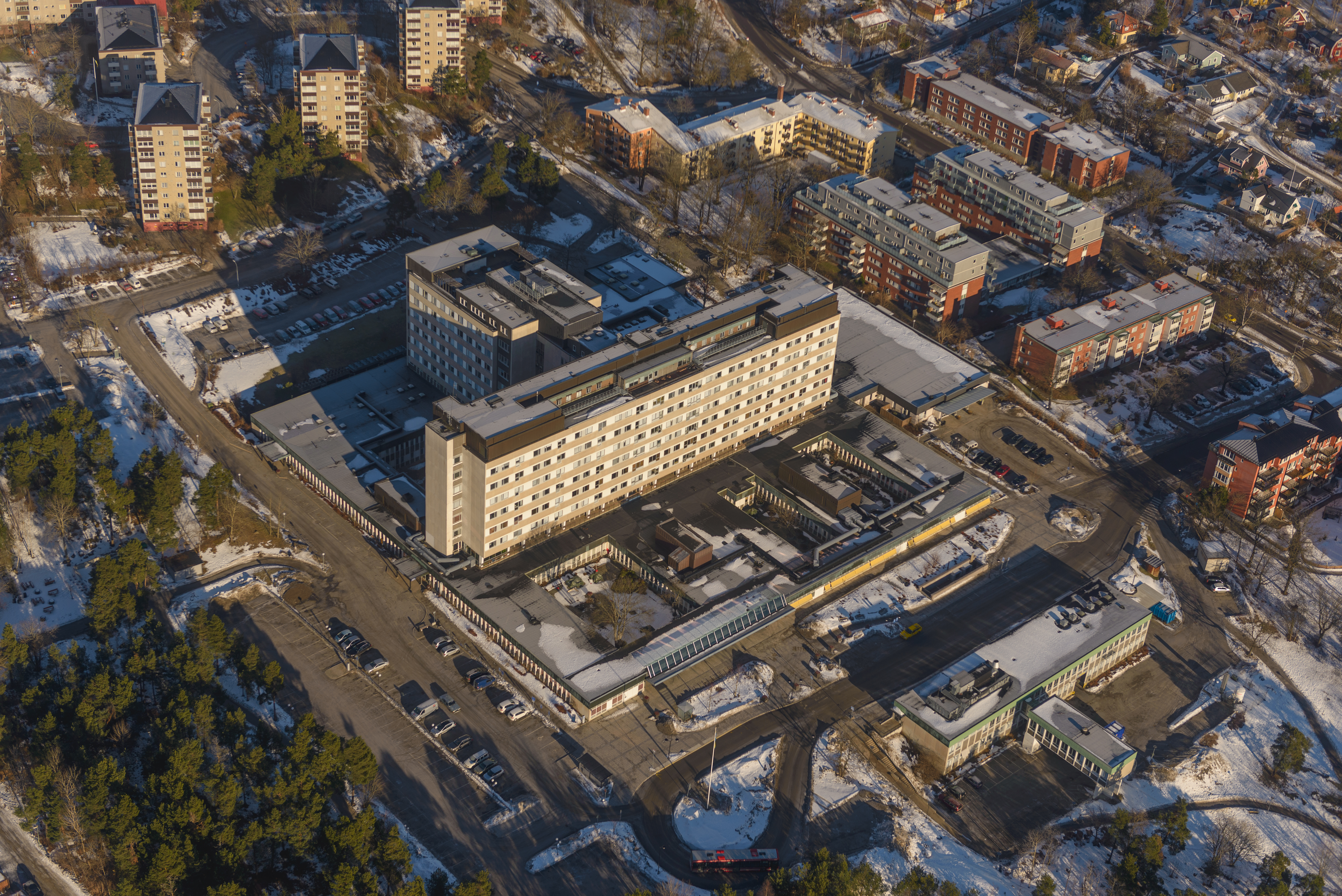 Nacka sjukhus (hospital).